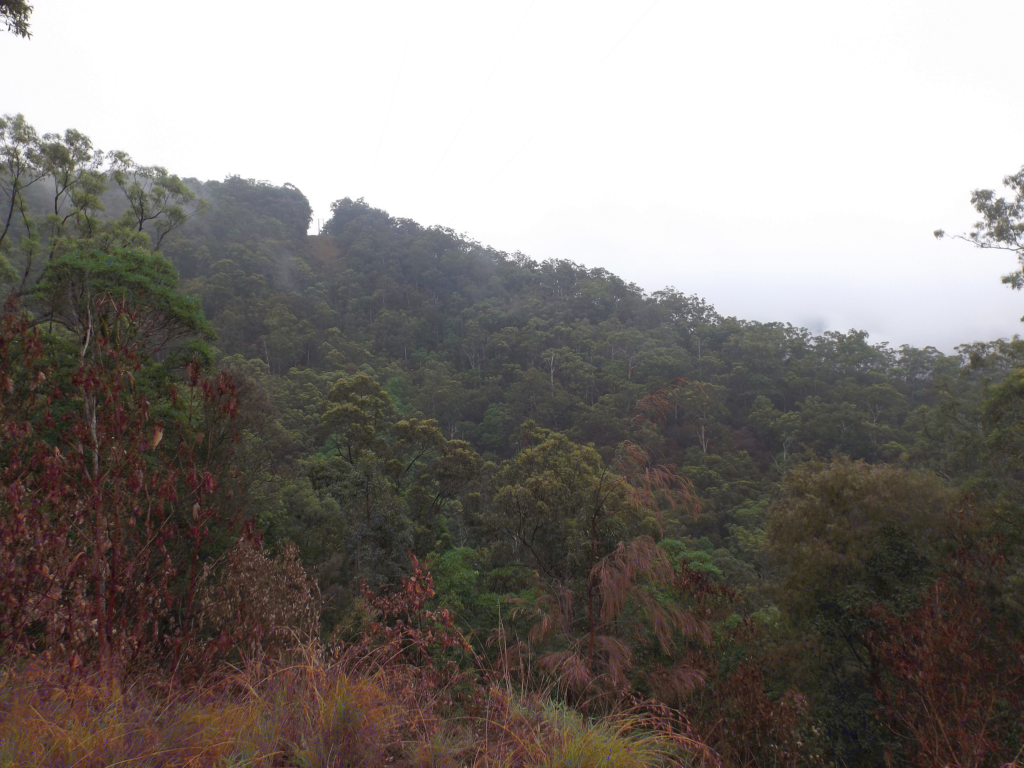 Photo of Mount Nimmel in Springbrook as seen from Mount Nimmel Road in Austinville, City of Gold Coast, Queensland, Australia. Springbrook National Park covers both sides of the road.